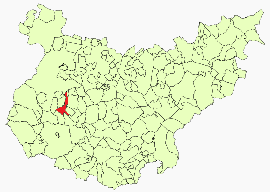 Nogales